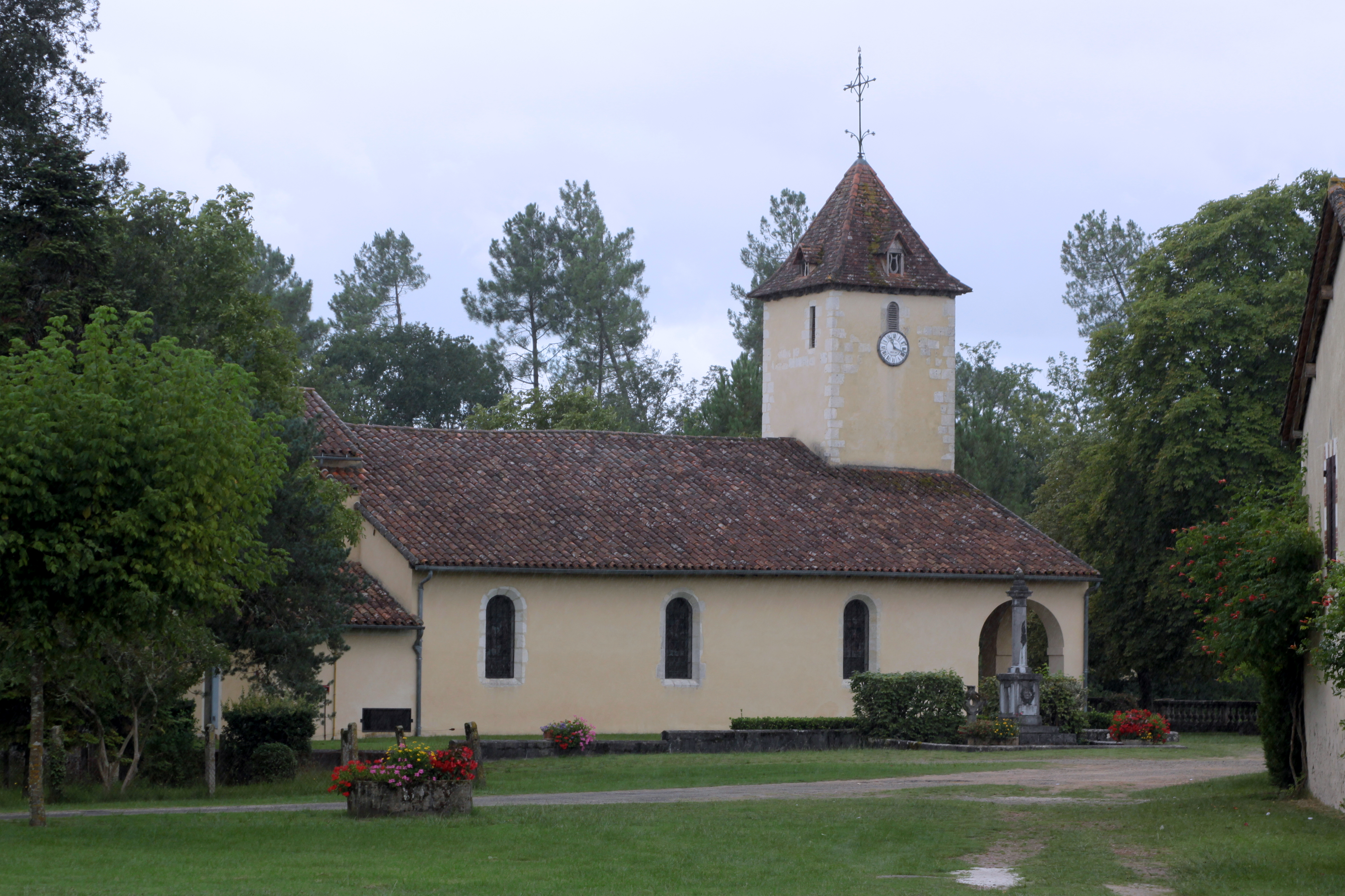 Church in Retjons